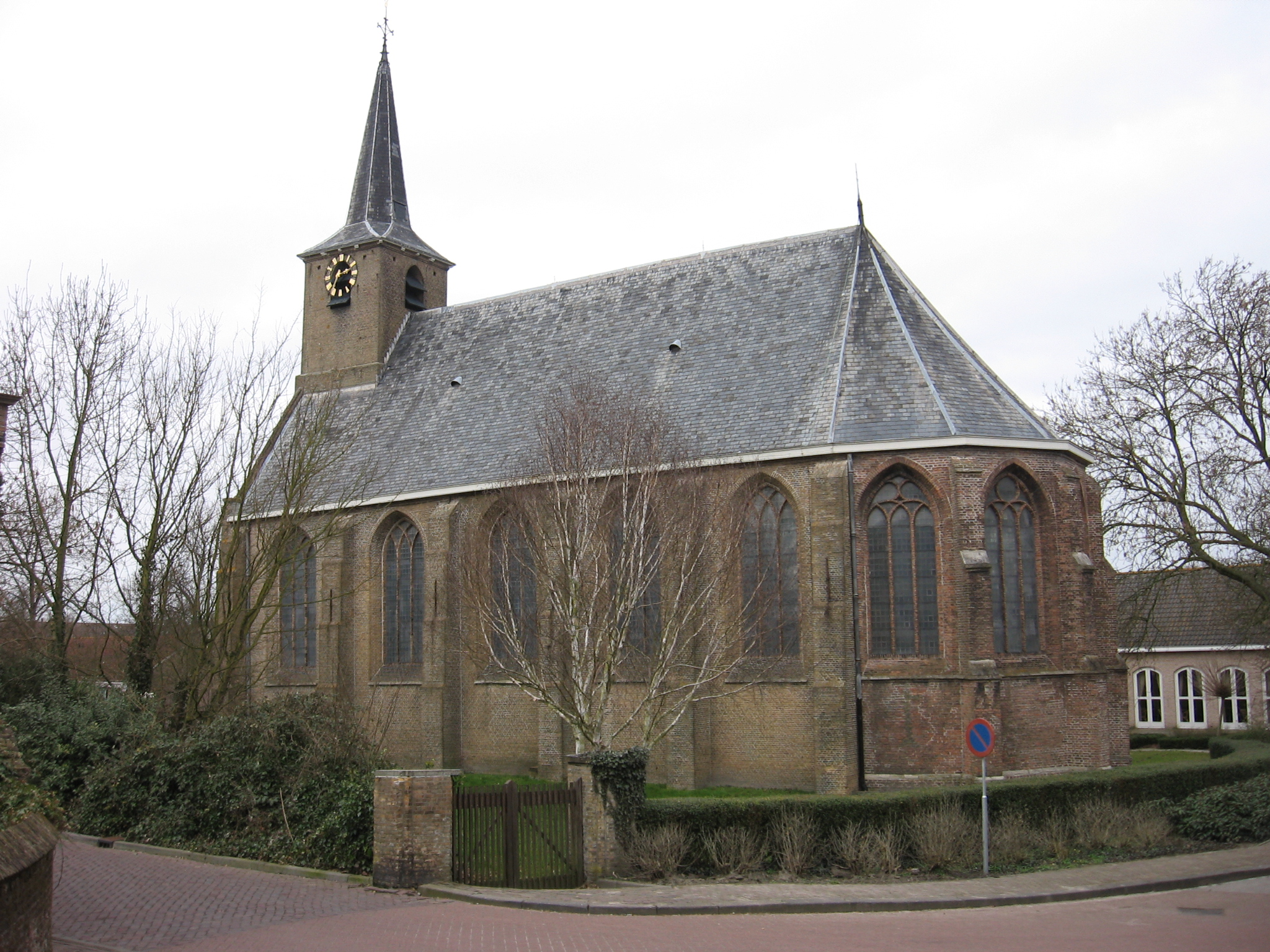 Heenvliet, church